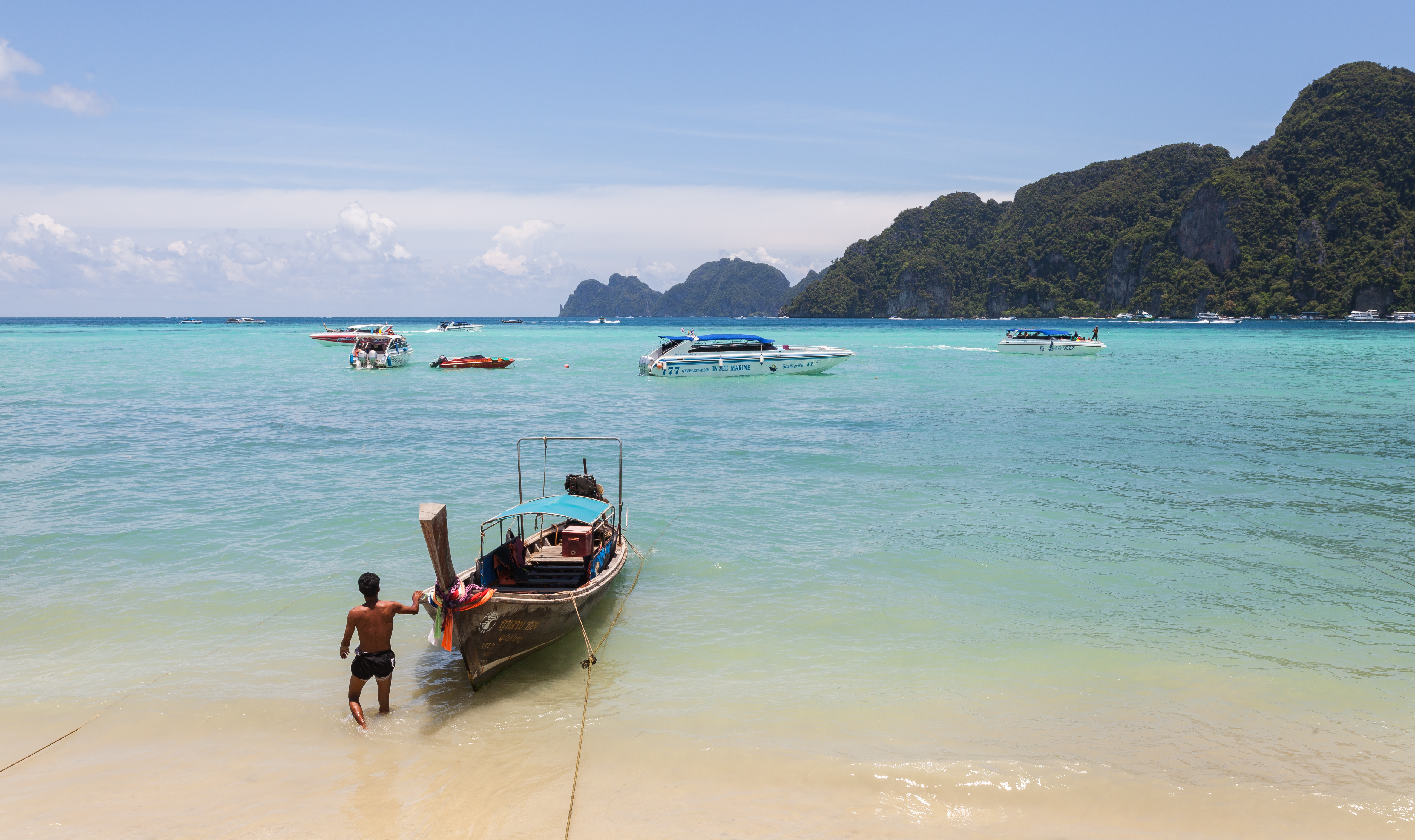 Ko Phi Phi Don Island, Thailand